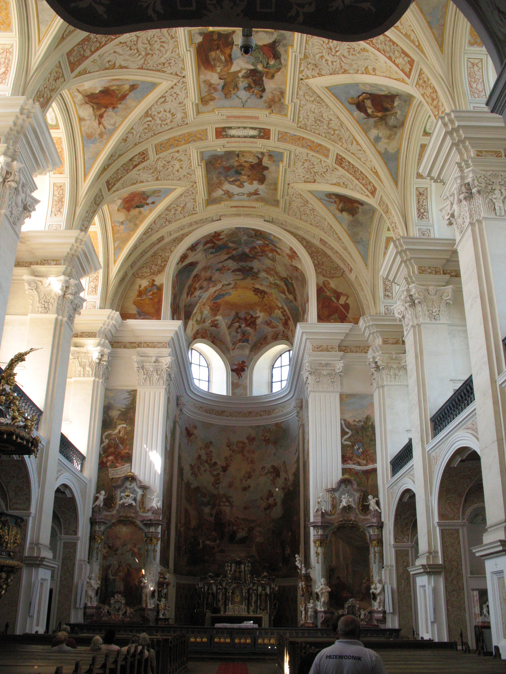 Krzeszów Abbey, Church of St. Joseph, Interior